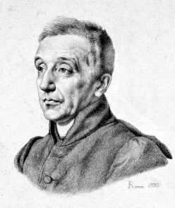 Italian theologian and composer Fortunato Santini (1778-1861) by Julius Hübner (1806-1882).